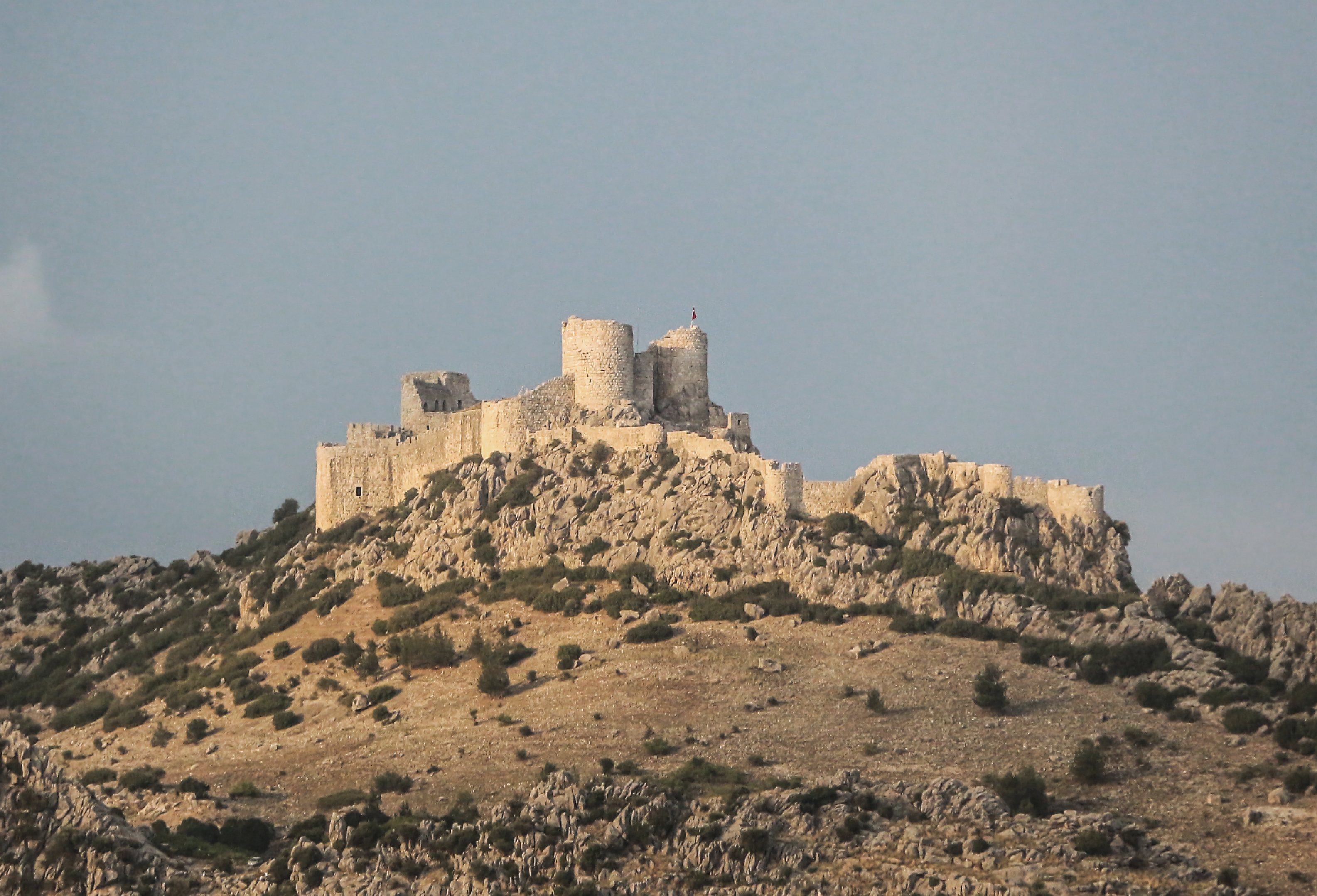 Yilankale (Snake Castle), Adana Province, Turkey